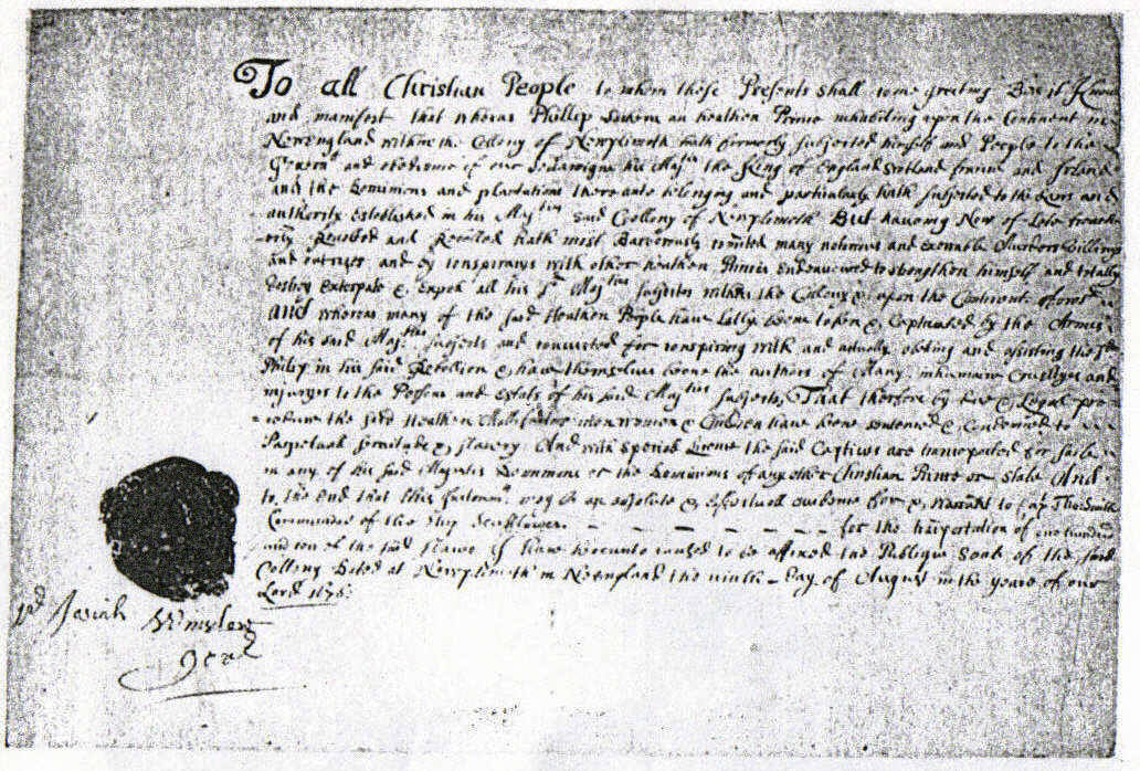 Warrant Signed by Governor Winslow of Plymouth for the Sale of Indian Captives as Slaves. From Wikisource:The Founding of New England, by James Truslow Adams